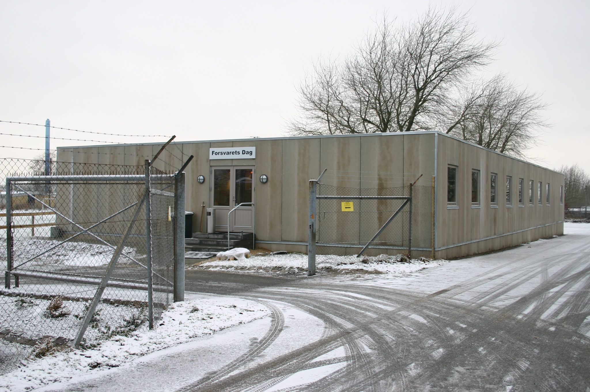 Recruiting Center Herning